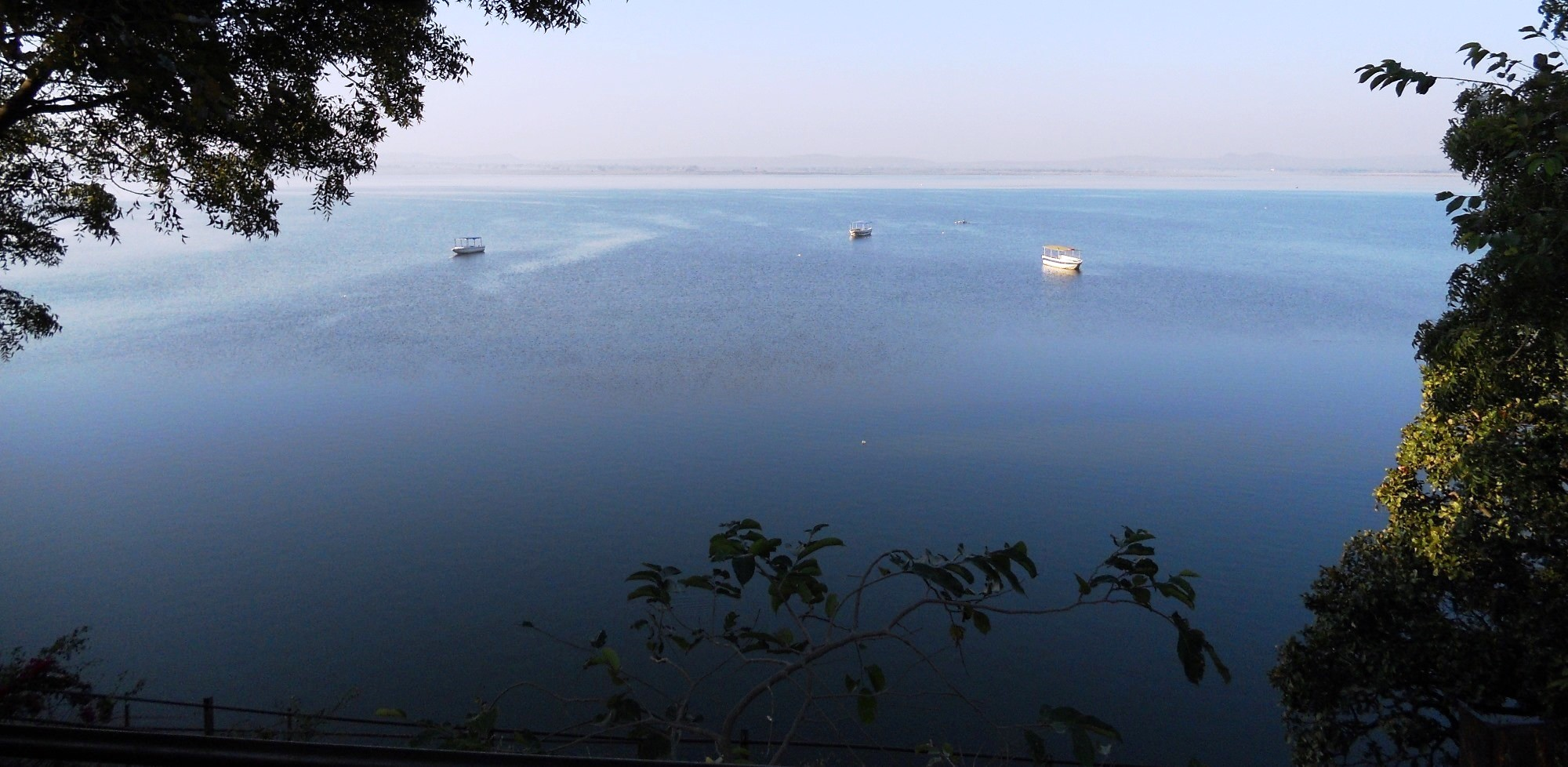 These photos are of Historical Ramappa Lake built by KAKATIYA RULERS during 1213AD. This lake serves thousands of acres of agriculture land even today.